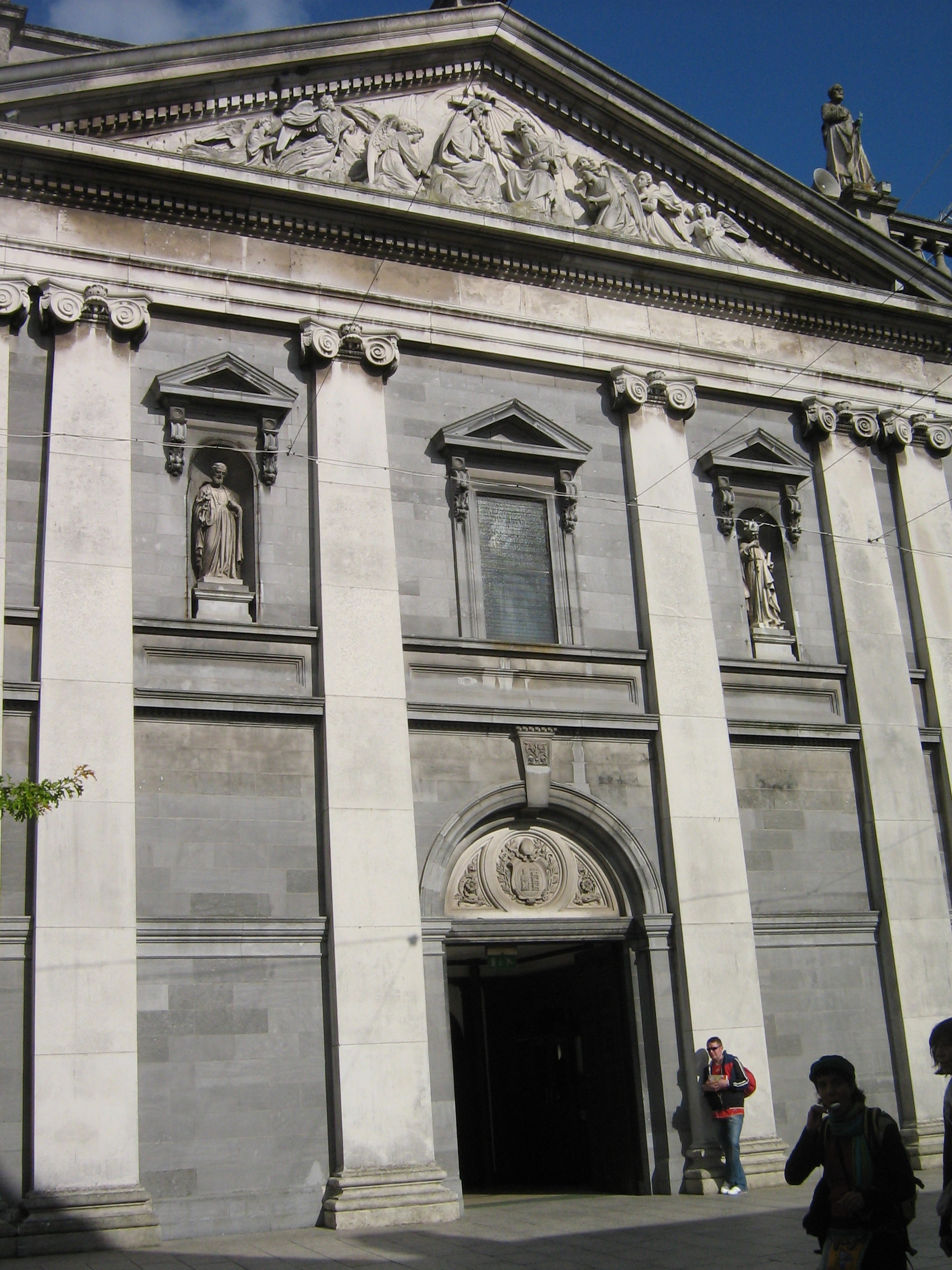 West front of the Holy Trinity Cathedral of the Roman-Catholic diocese of Waterford and Lismore.